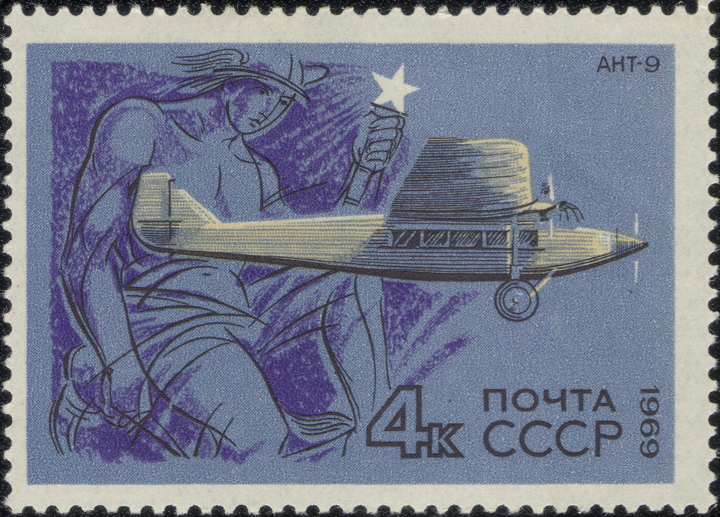 USSR stampː Airplane Tupolev ANT-9, 1929. Mercury. Seriesː Develoment of Soviet Civil Aviation